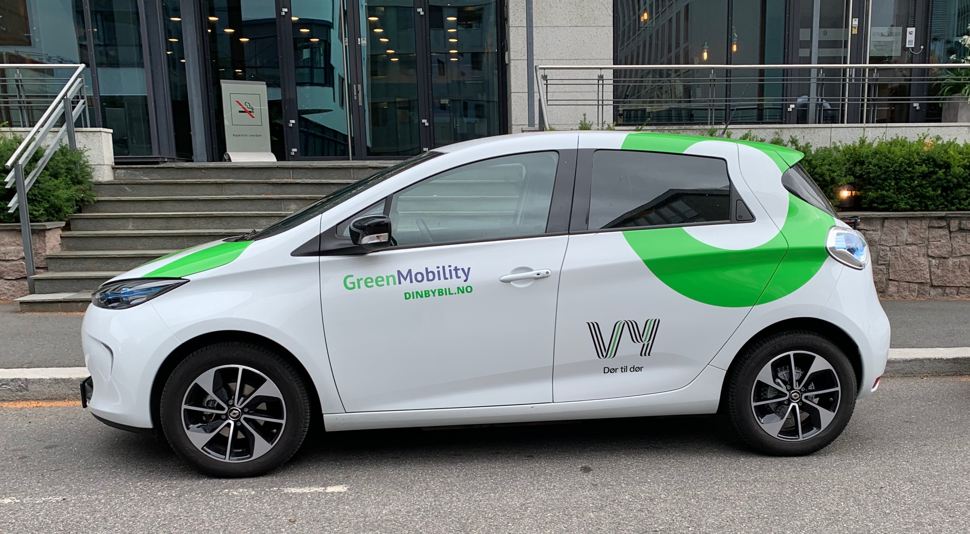 Vy GreenMobility dinbybil.no